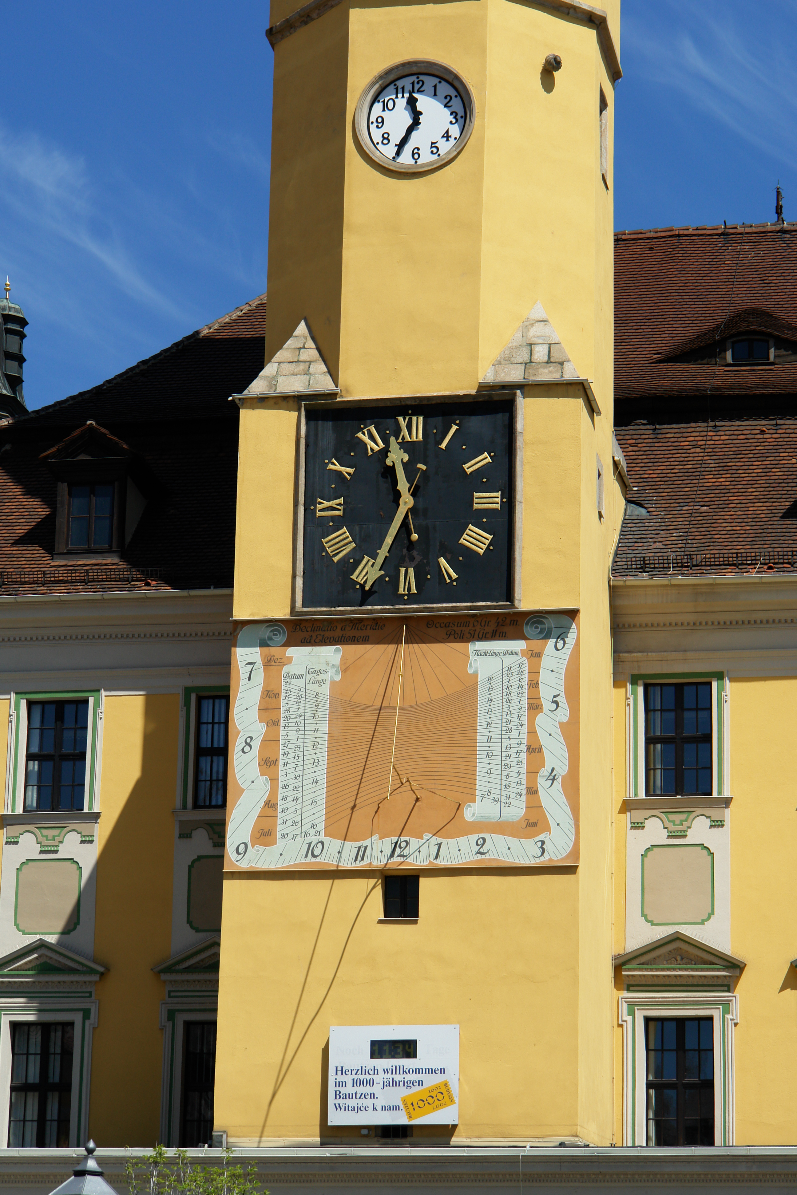 turret clocks of city hall in Bautzen.